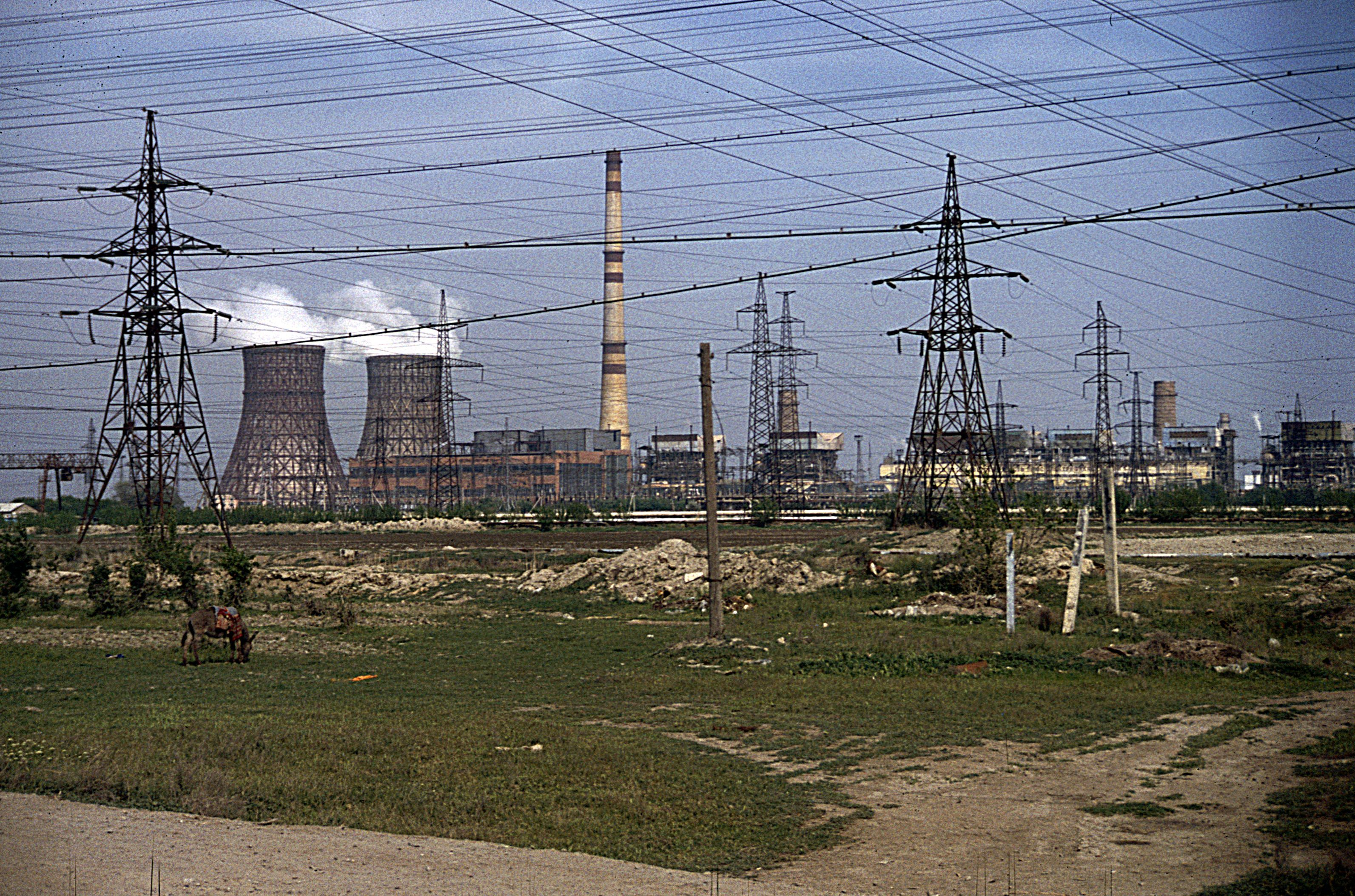 Navoiy thermal power plant